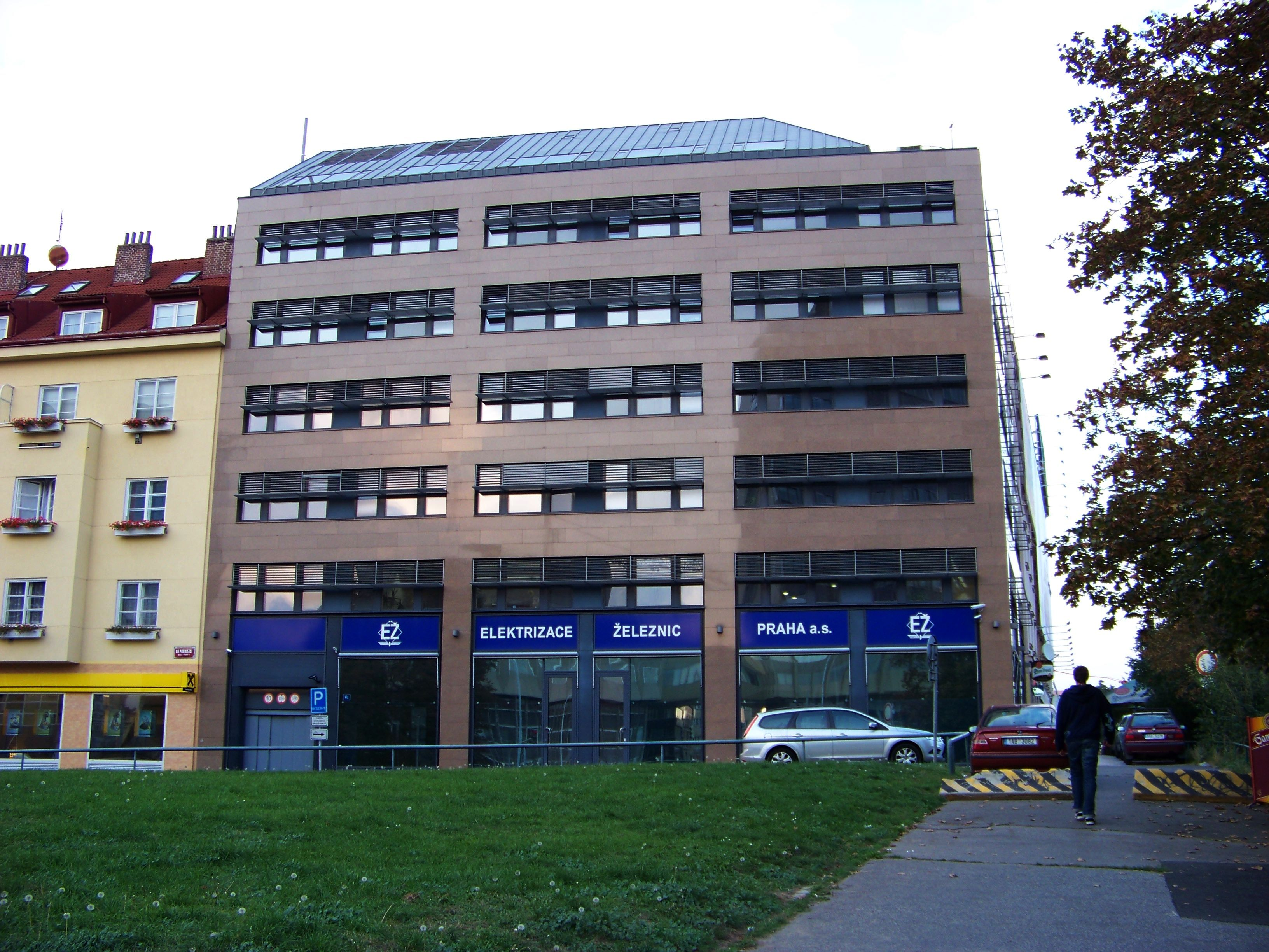 Prague-Nusle, the Czech Republic. Pankrác, Hrdinů Square and Na Pankráci street, Elektrizace železnic building.